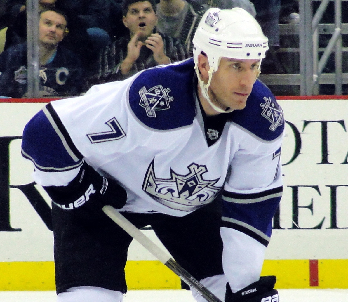 Rob Scuderi during a February 10, 2011 game between the Los Angeles Kings and Pittsburgh Penguins at Consol Energy Center in Pittsburgh, PA.